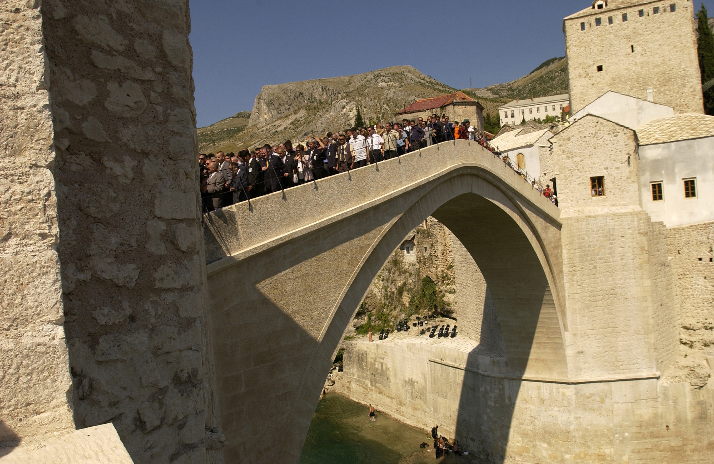 Locals walk over for their very first time Stari most during the opening in Mostar, Bosnia-Herzegovina. The "Old Bridge", or Stari most, which is the towns symbol, was destroyed during the Balkan war in 1993. It was officially reopened for the public on July 23, 2004 after several years of reconstruction.